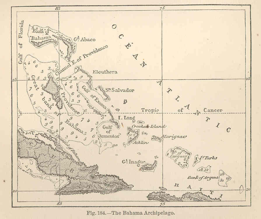 Bahama Archipelago Subject: Bahamas--Maps, Archipelagoes--Maps Geographic Subject: Bahamas Tag: Coasts